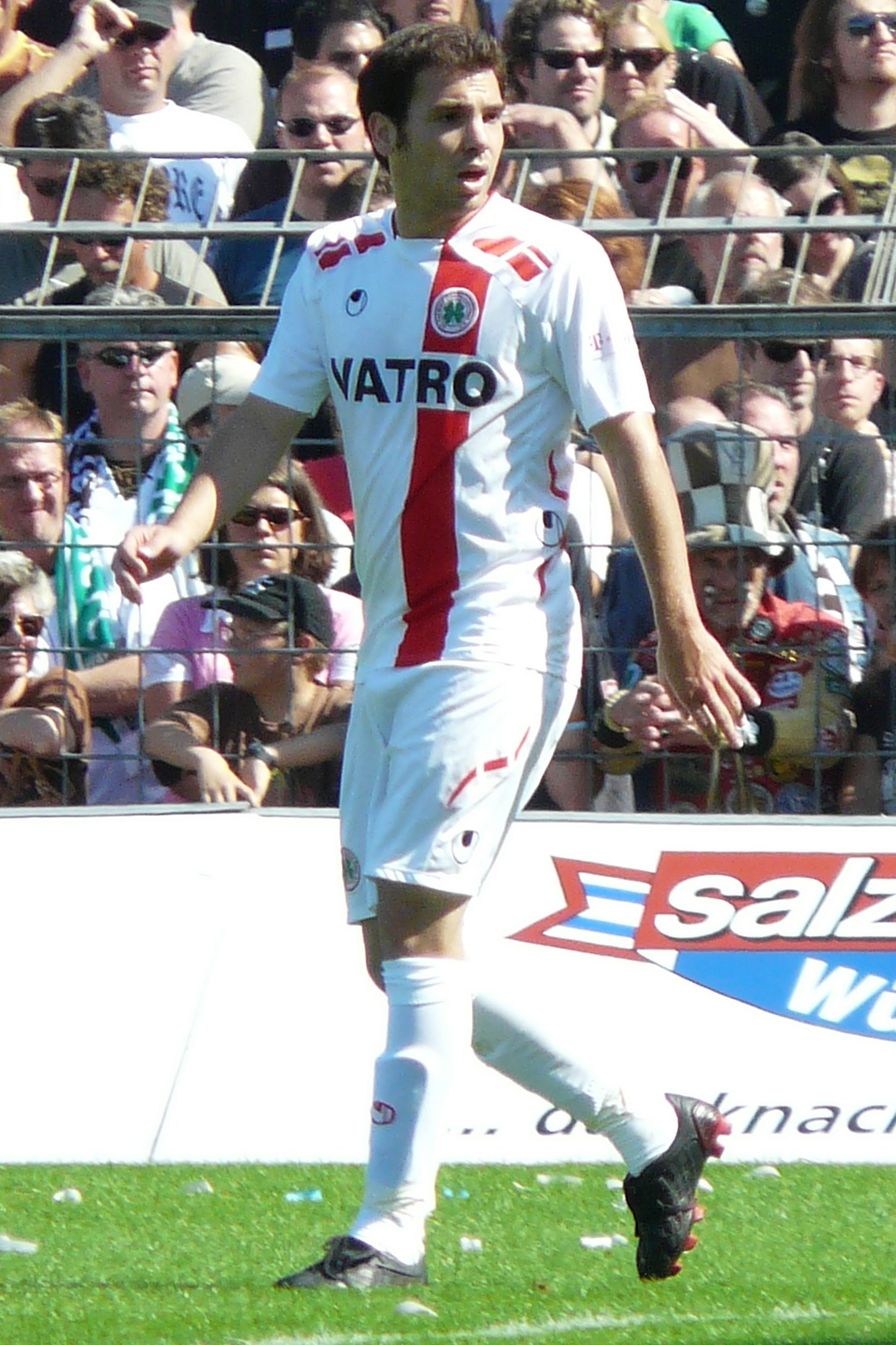 David Müller as Player from Rot-Weiß Oberhausen